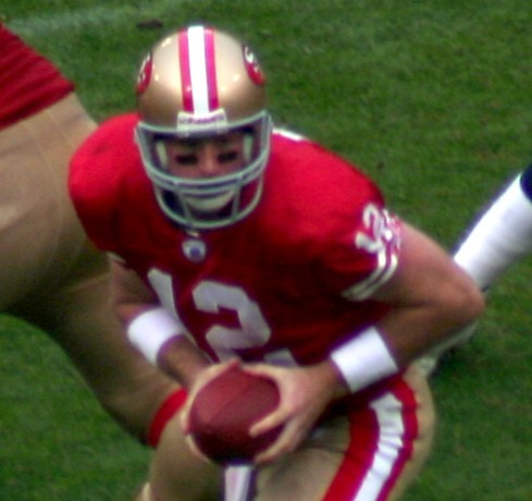 Trent Dilfer (#12) taking the snap from Eric Heitman (#66). David Baas (#64), Moran Norris (#44) and Larry Allen (#71) are also visible.